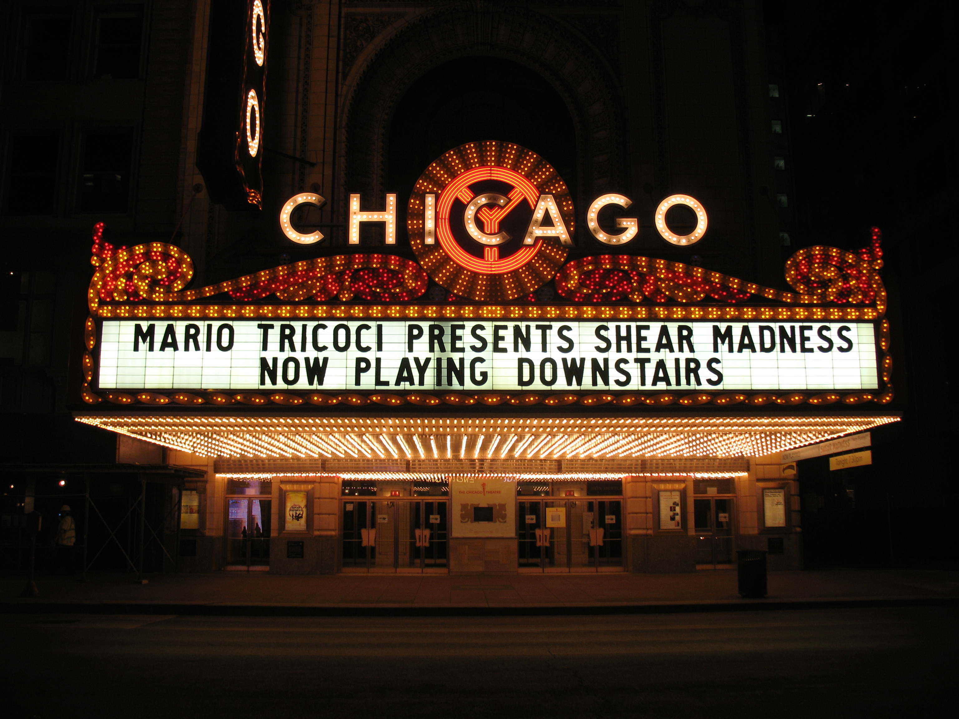 Chicago Theater